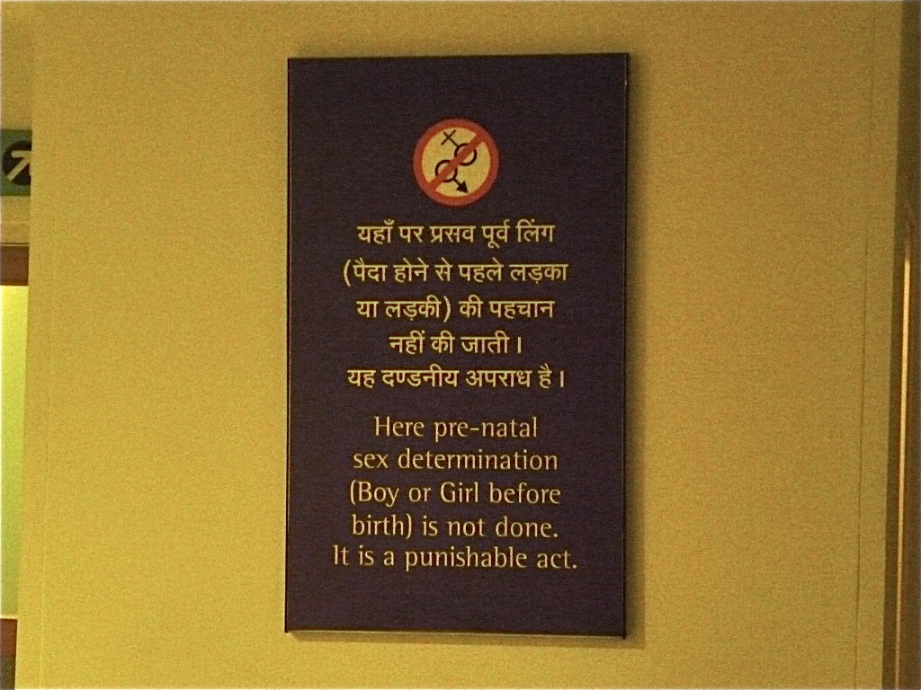 Sign posted in a New Delhi hospital stating that pre-natal sex determination is a crime.